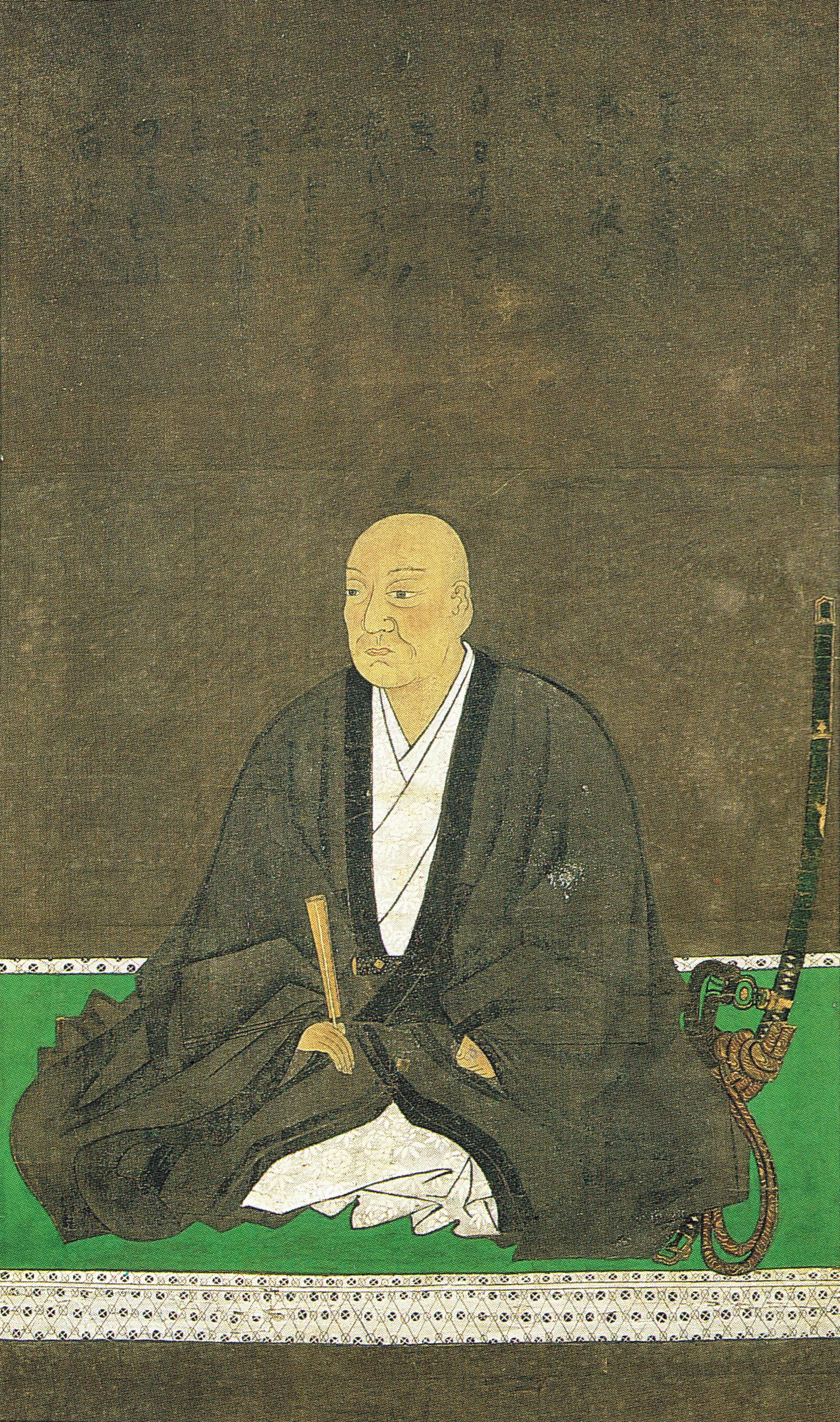 Portrait of Inaba Sadamichi, owned by Gekkei-ji Temple in Usuki, Oita, Japan